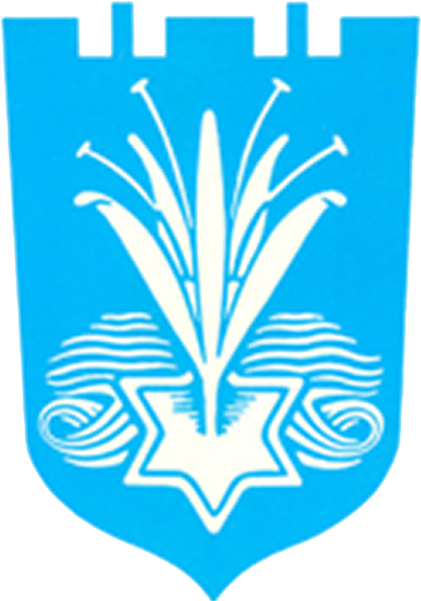 Coat of arms of the city of Netanya